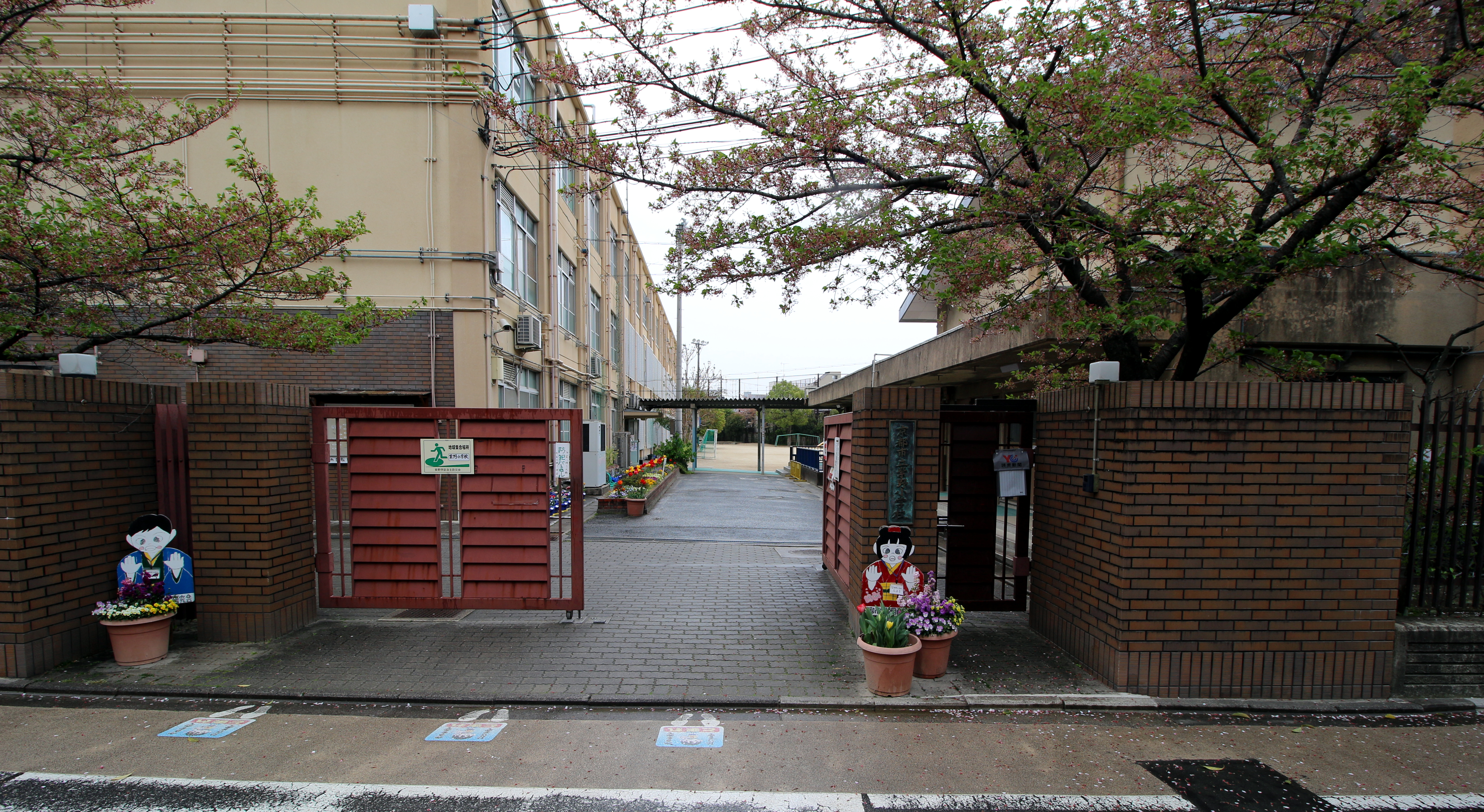 Entrance to the Murasakino Elementary School in Kyoto, Japan.